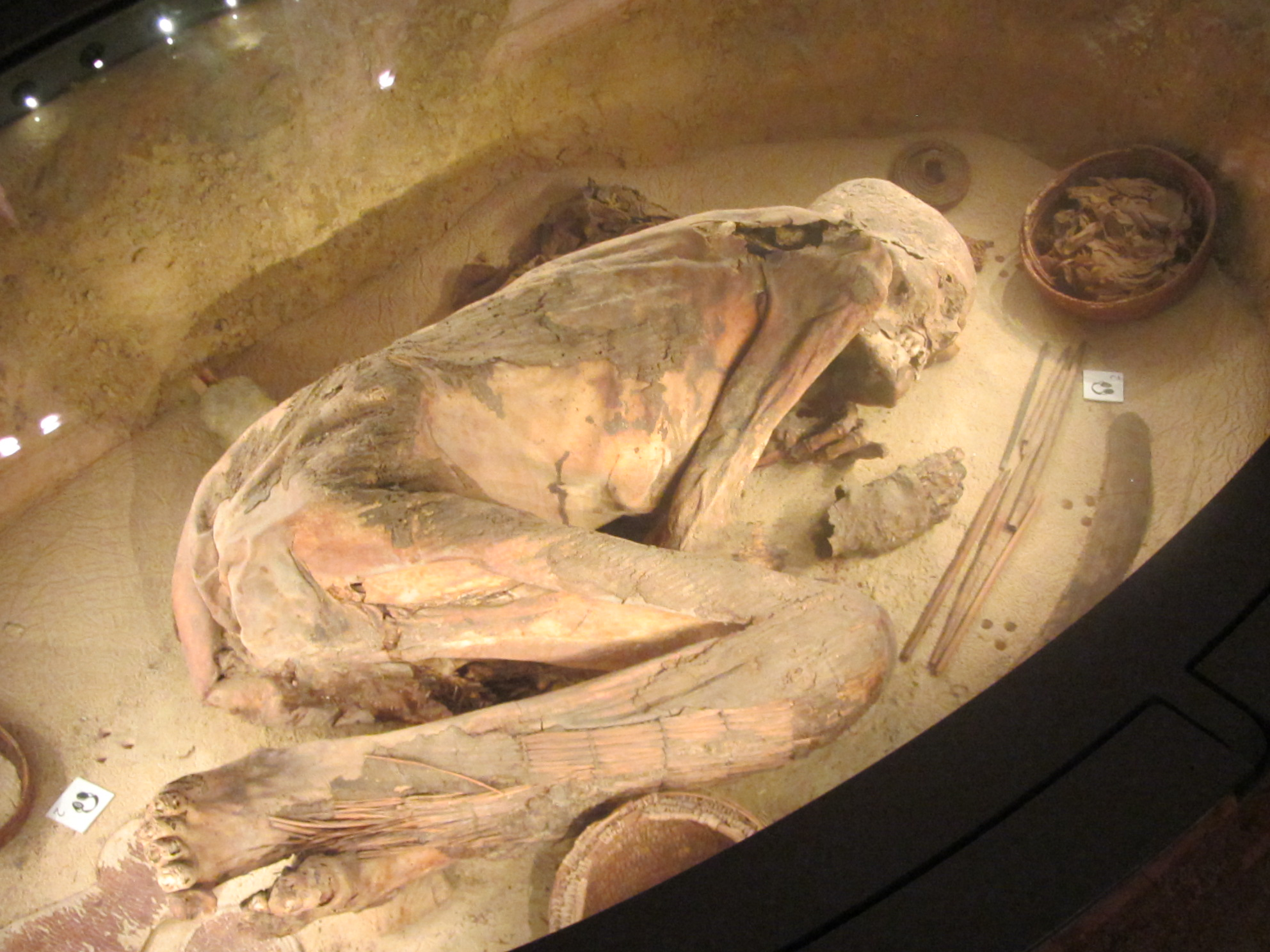 Egyptian remains of the oldest in the world died, before the technique of mummification, made ​​from fossil burning sand ( Museo Egizio Torino)